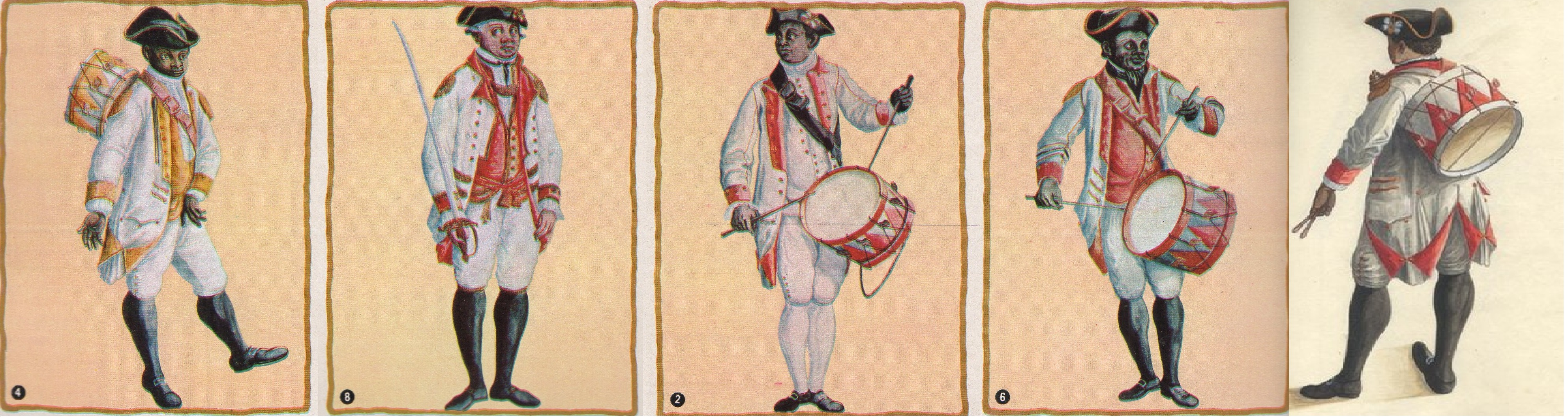 Black soldiers. Colony Brazil. XVIII century